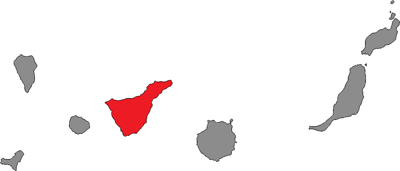 Canarian Parliament district of Tenerife.